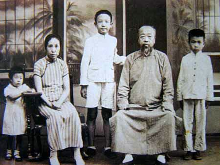 Photograph of Ji Gonquan and his family c. 1930